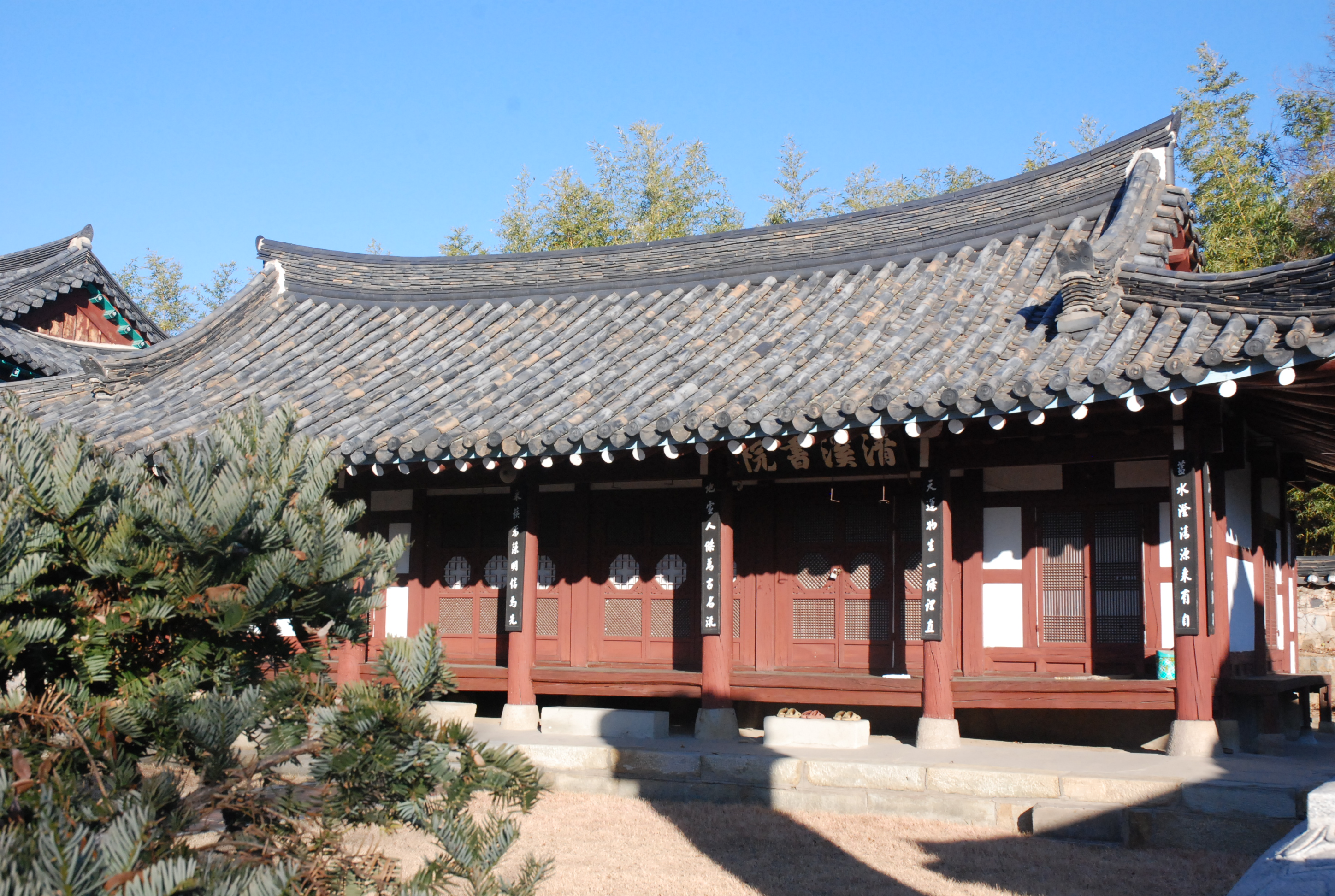 Chunggoe Seowon, in Jinju Castle